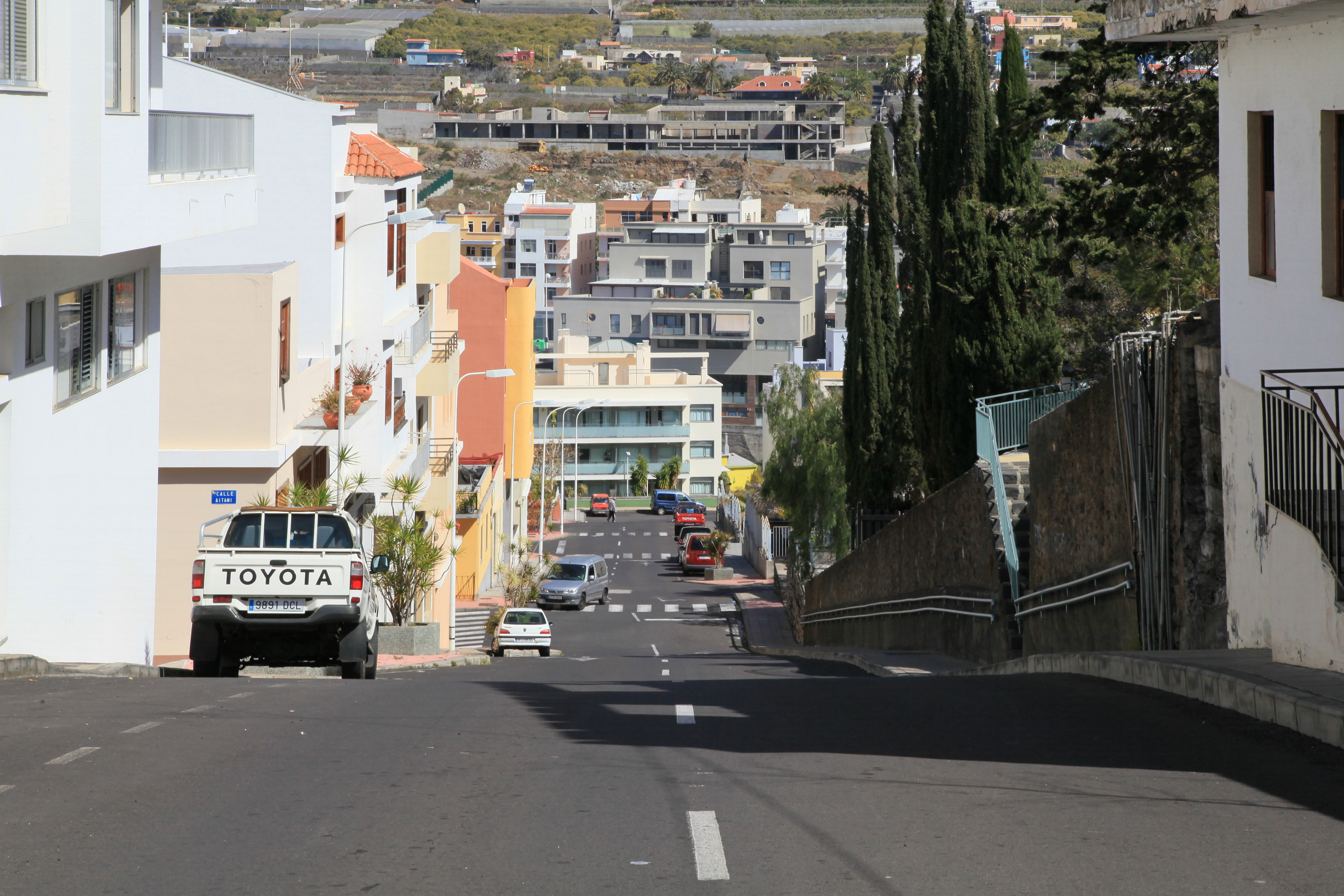 Calle Princesa Dácil in Los Llanos de Aridane, La Palma, Canary Island, Spain